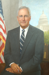 Image of former Republican Congressman from Louisiana, Robert L. Livingston.